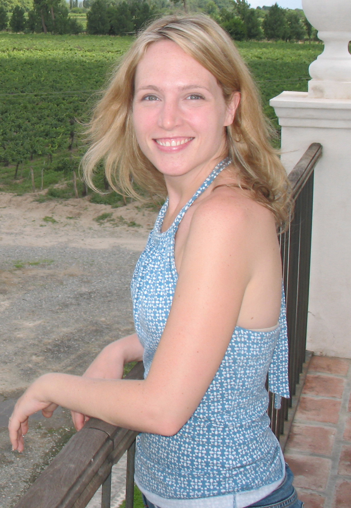 Laura Eldridge standing at a railing outside wearing a blue shirt.